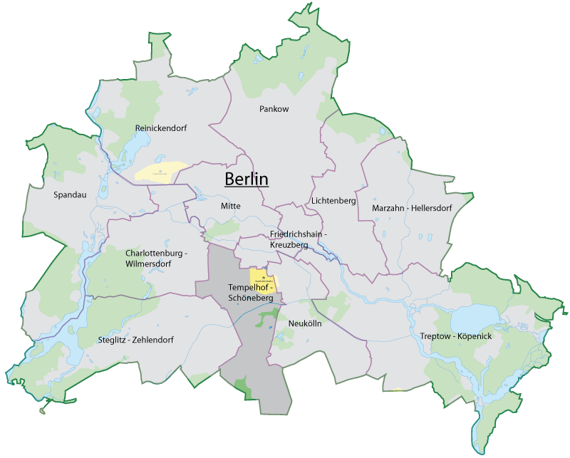 Author: Felix Hahn Source: Based on Water map of Berlin Description: Map of Berlin and its districts.